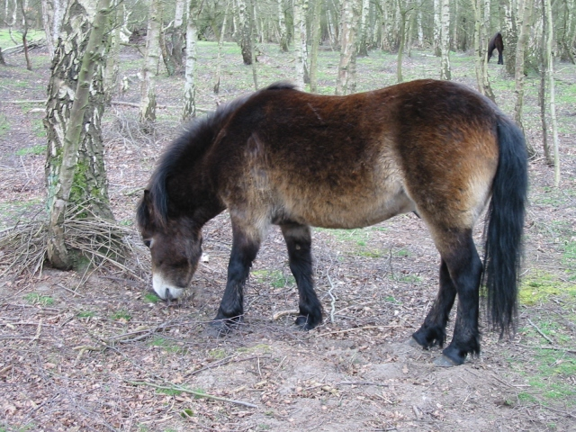 Exmoor ponies at Skipwith Common Came across a group of four or five Exmoor ponies foraging whilst on the way back to the car park. Low light conditions and no flash meant that this was the best of my six photos.